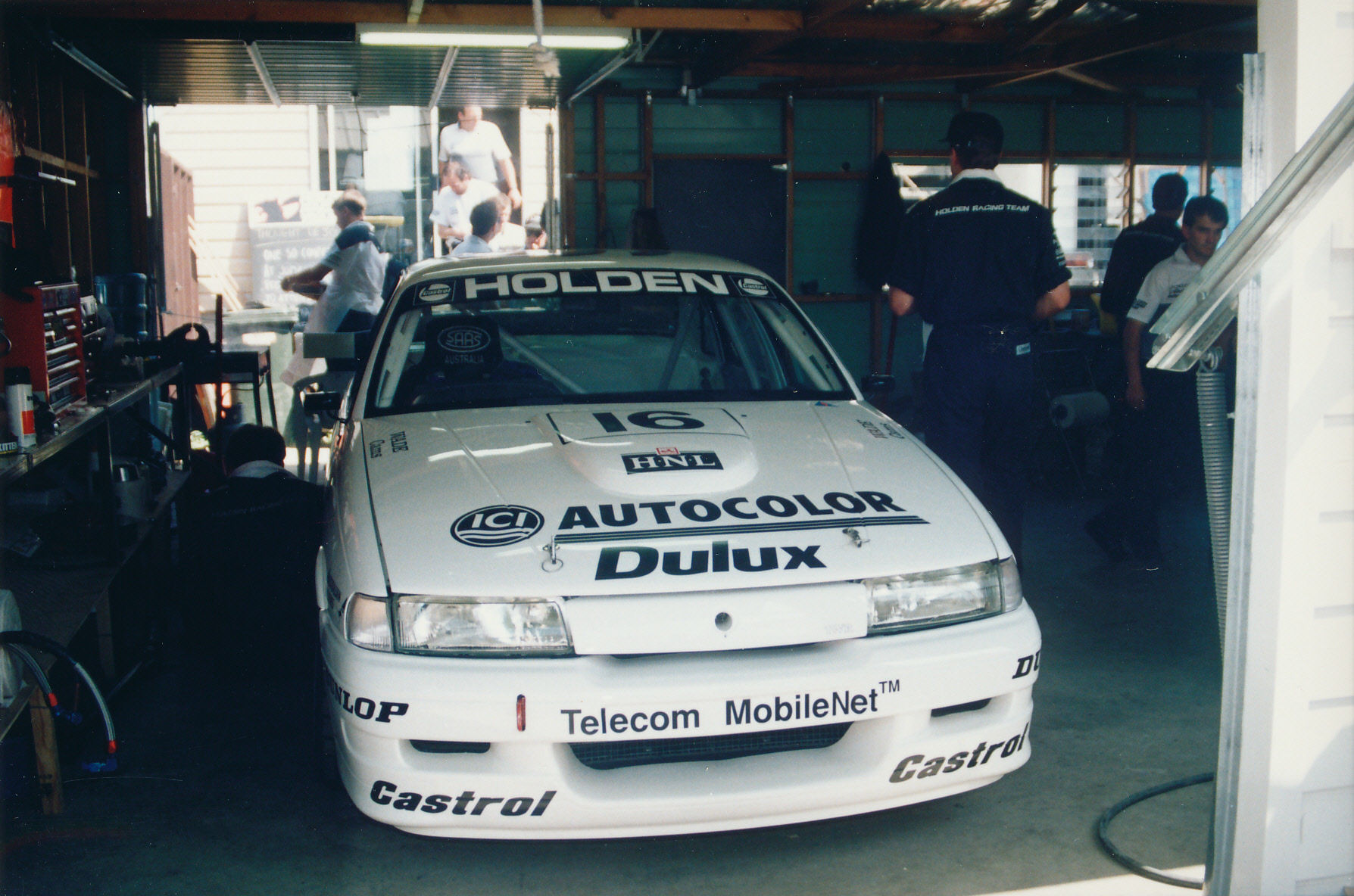 This image is a scan of a 35mm print taken at Bathurst in 1991